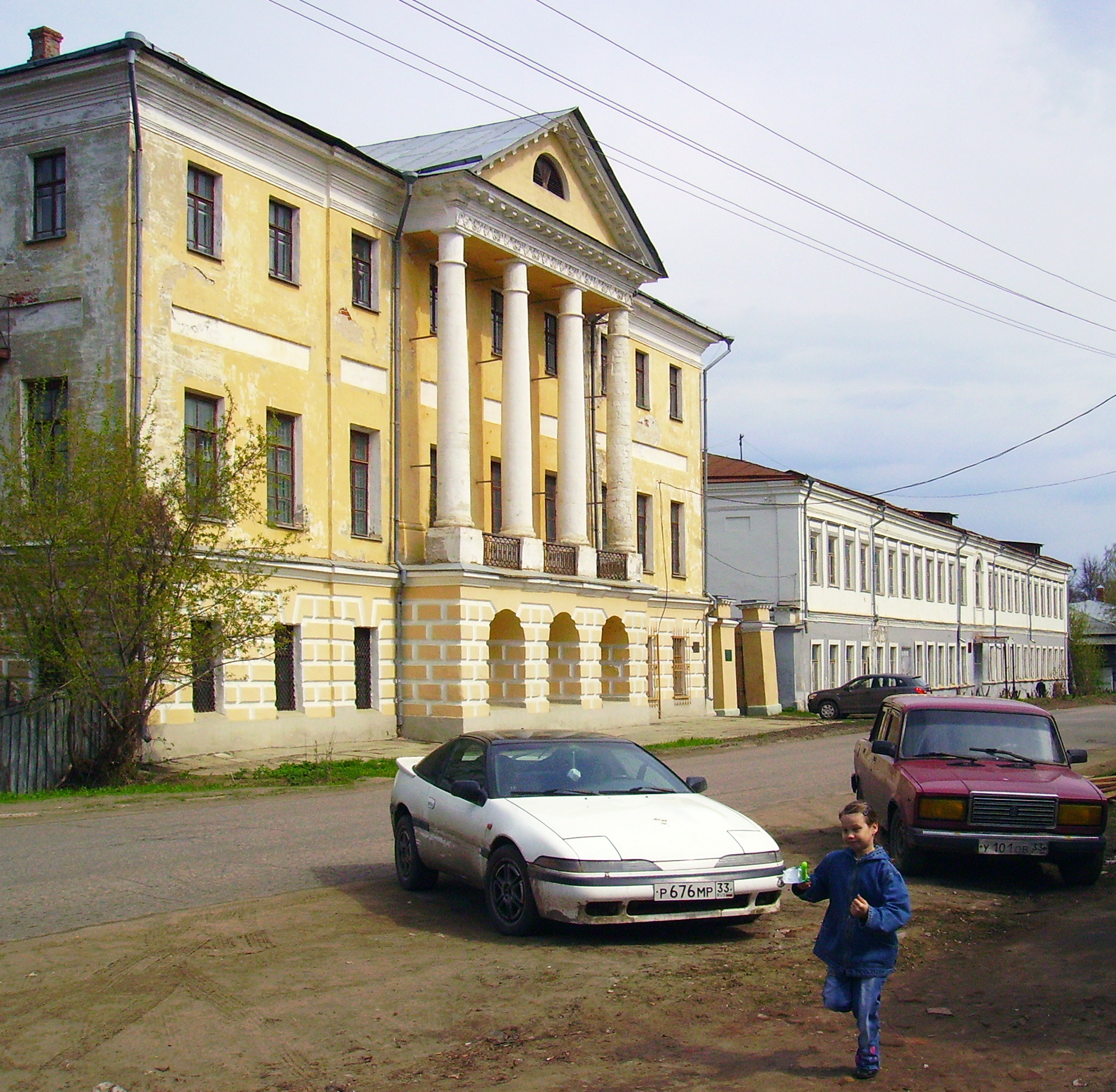 Near Town Museum